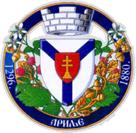 The middle Coat of arms of the city and municipality of Arilje in Serbia